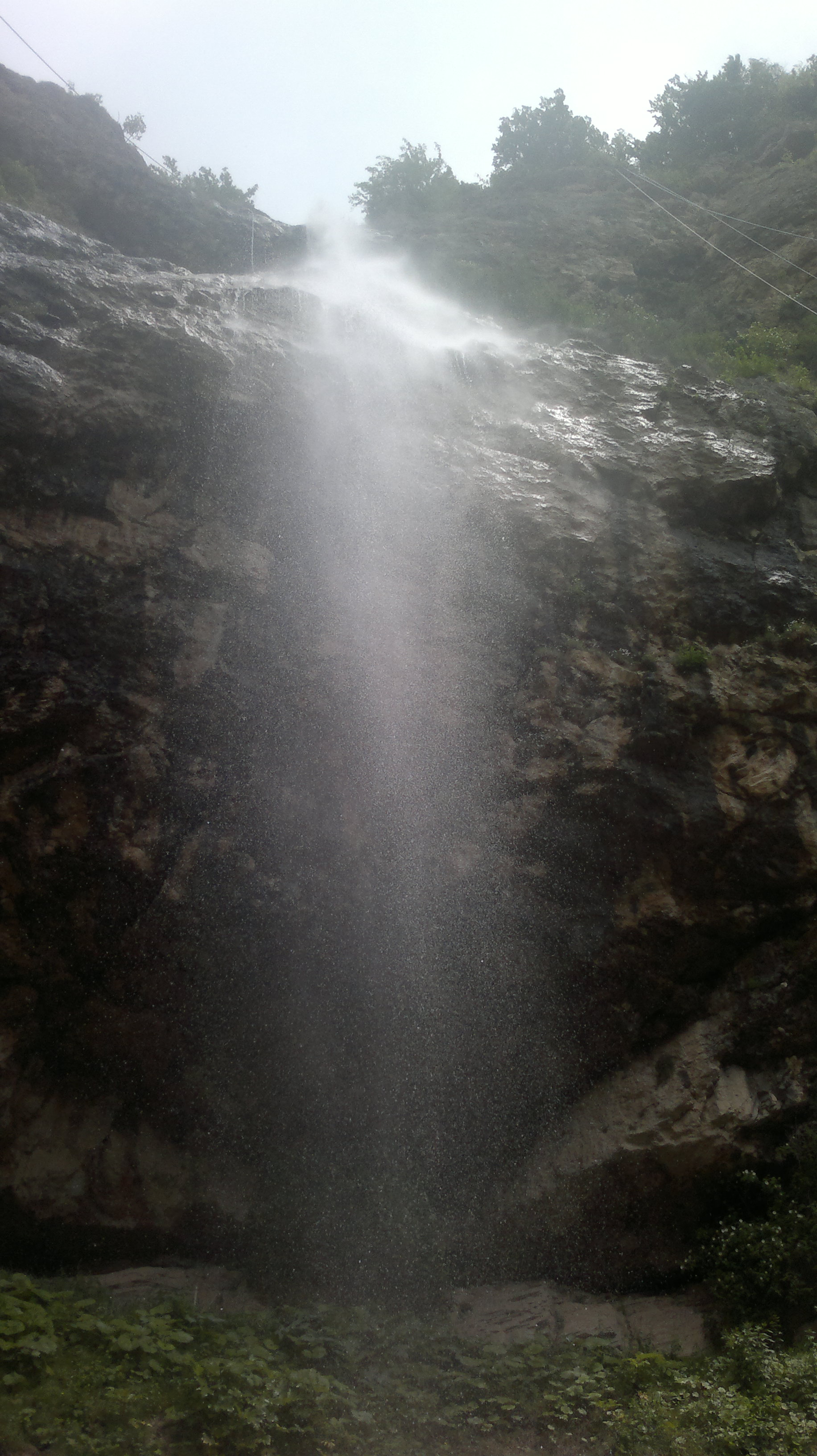 Afurja village in Azerbaijan